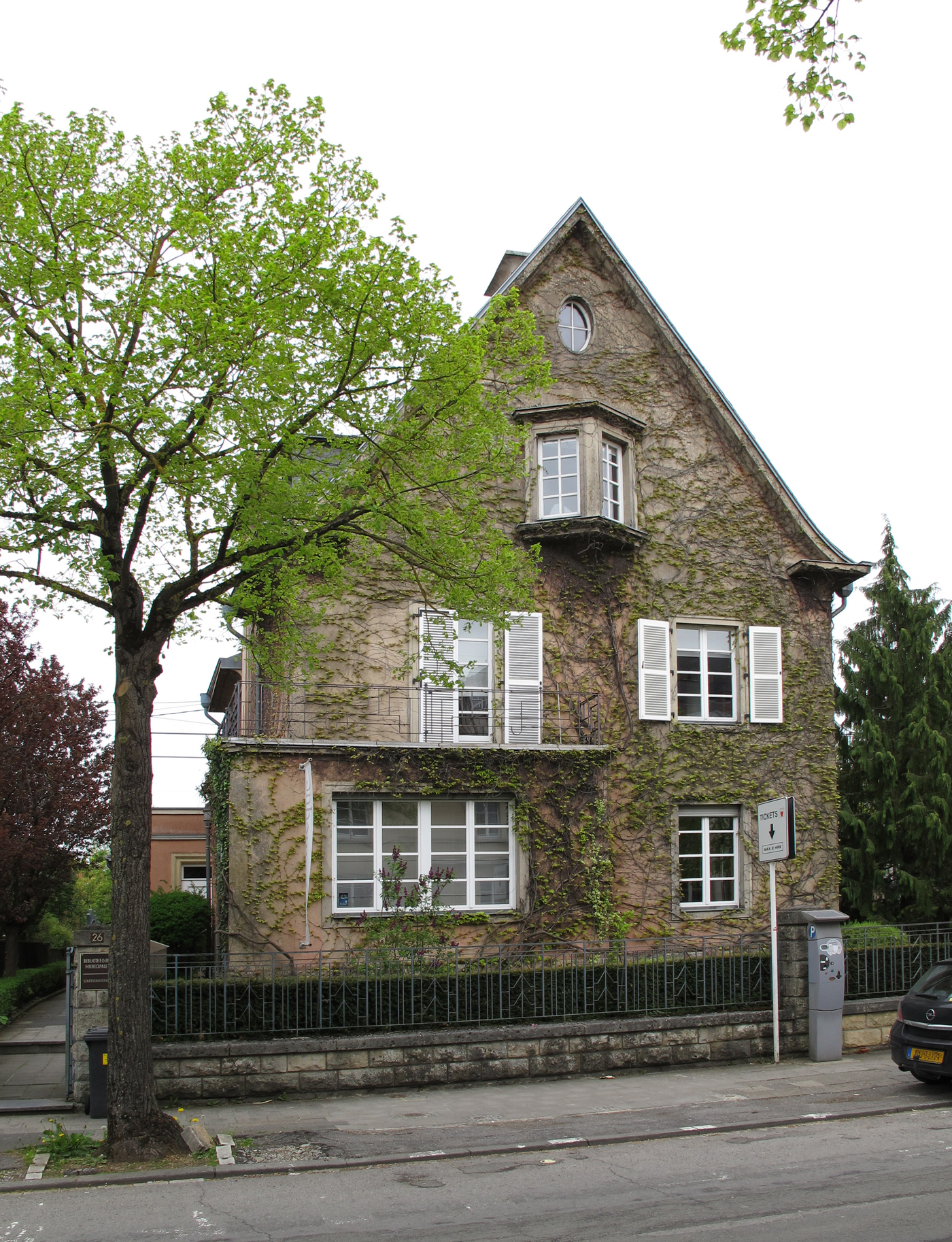 Municipal Library of Esch-Alzette, Luxembourg